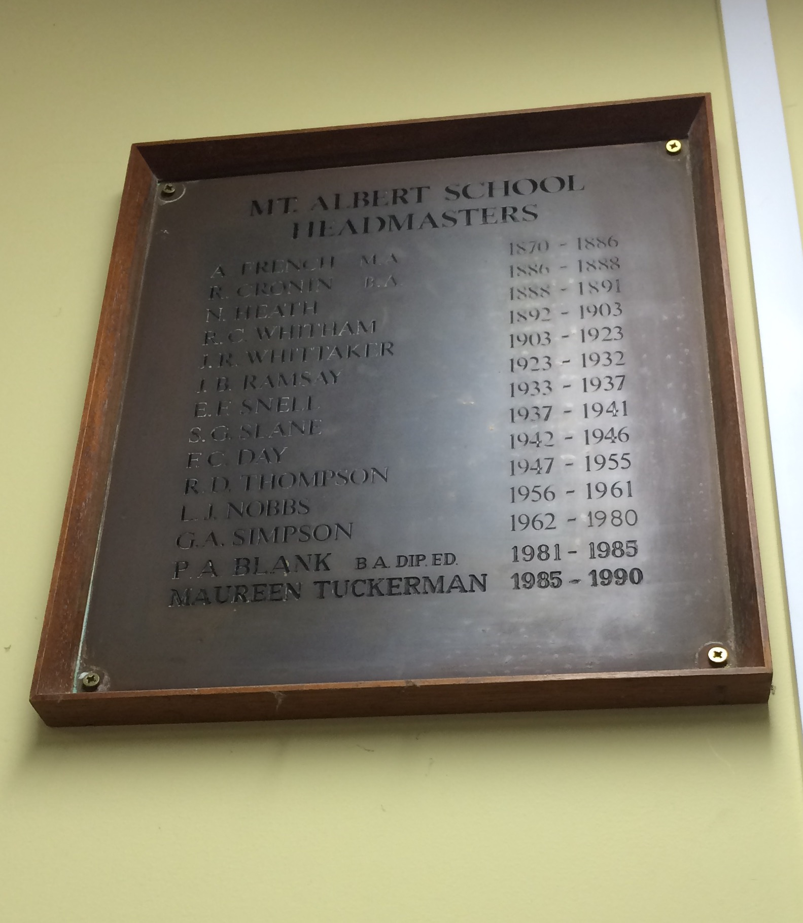 Plaque in Mount Albert Primary School (Auckland, NZ) office showing all previous Headmasters